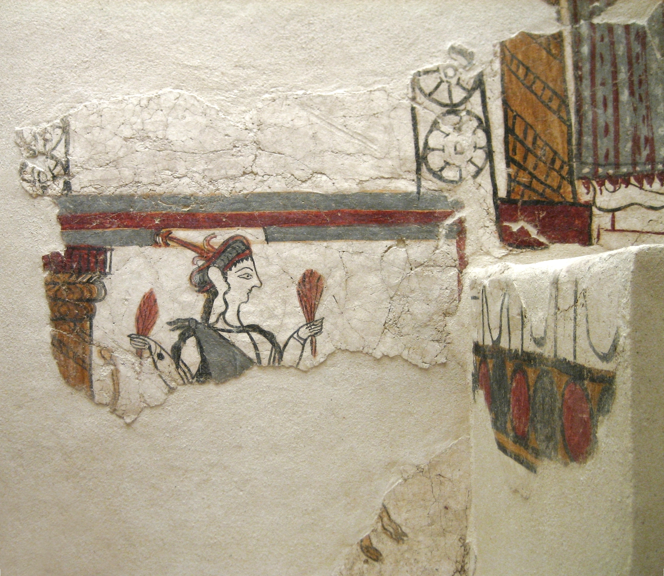 Fresco at the museum at Mycenae in Greece